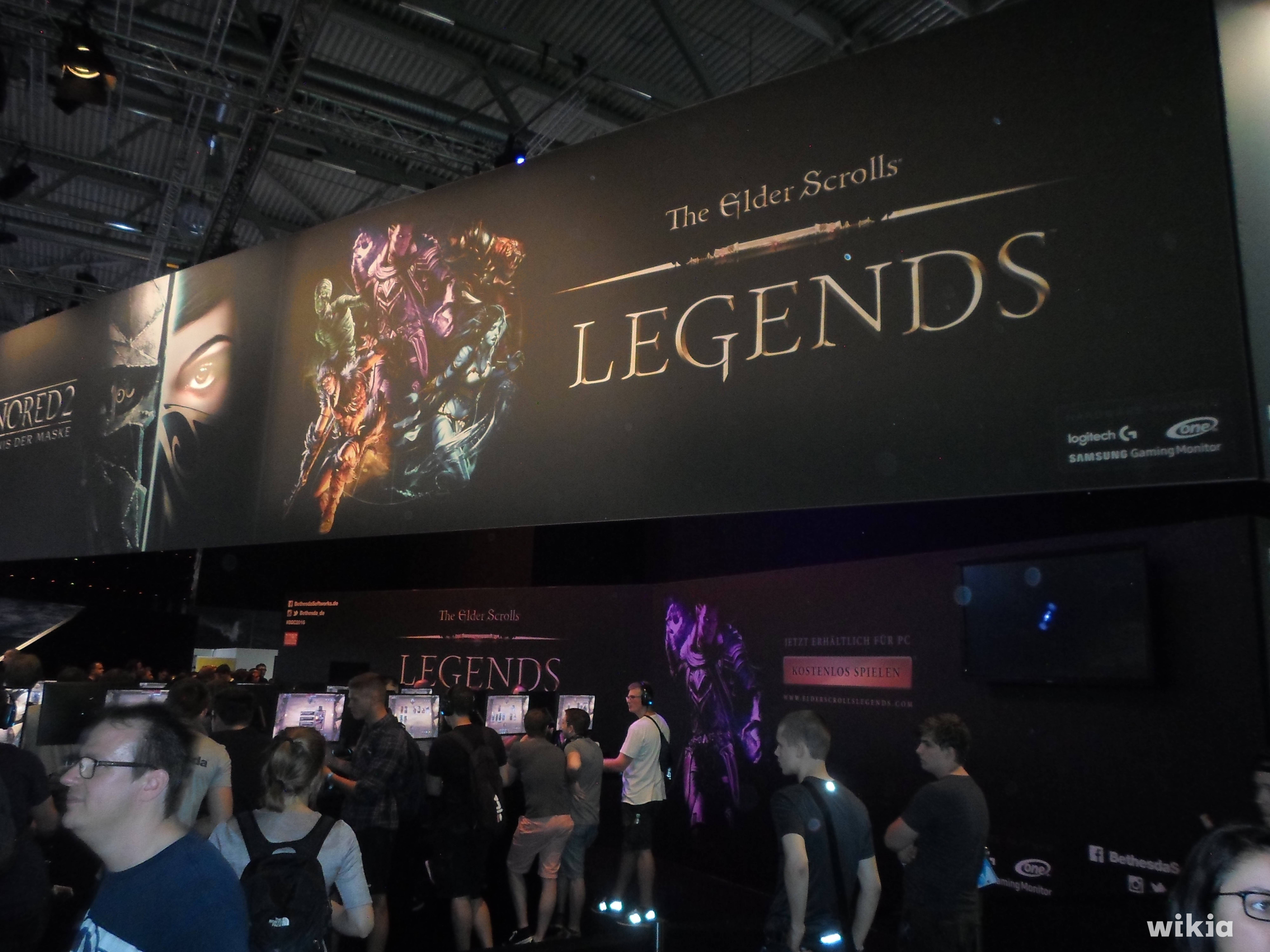 Gamescom 2016 impressions - Friday (open for all visitors)